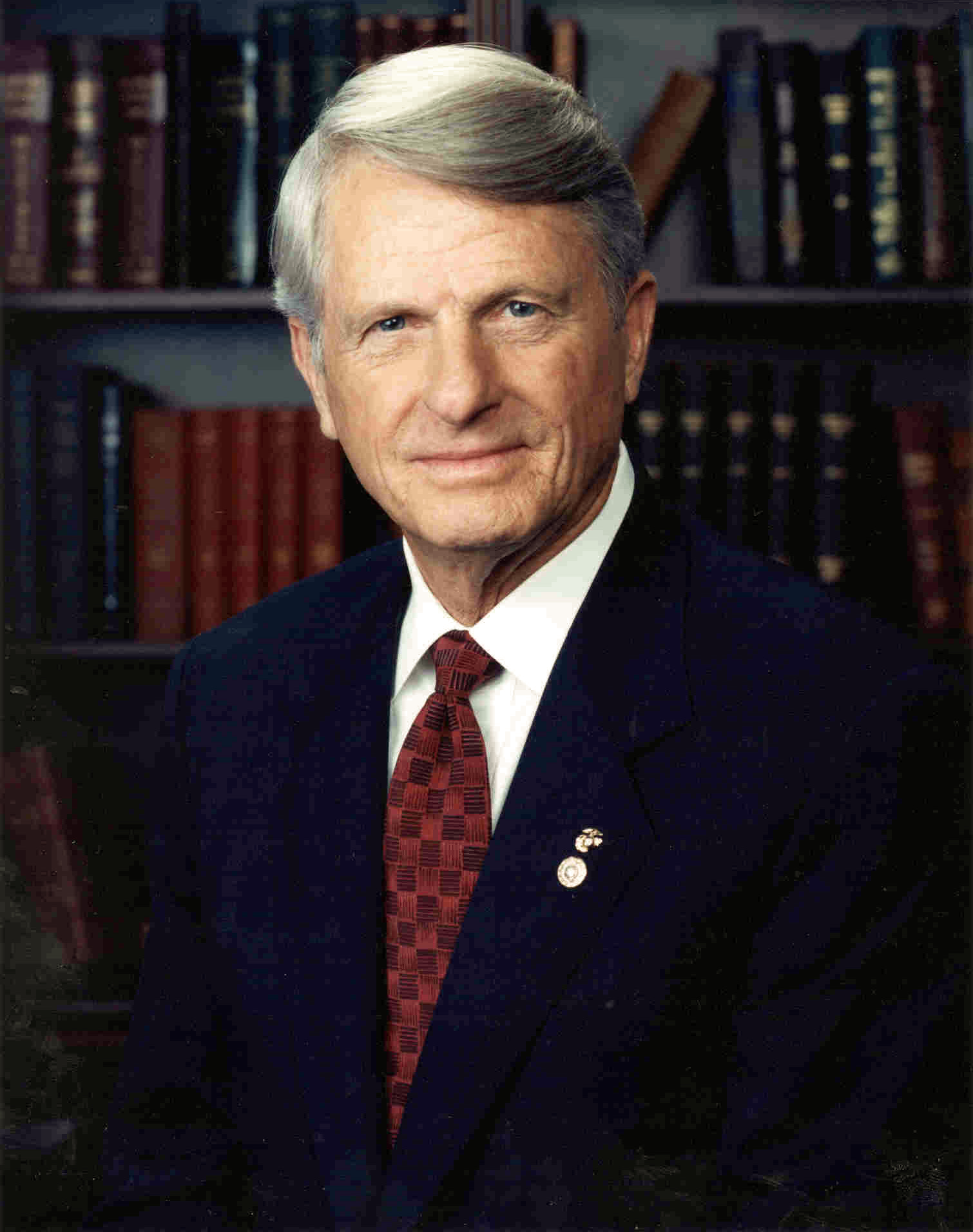 Zell Miller (born February 24, 1932) is an American politician from the U.S. state of Georgia. A Conservative Democrat, Miller served as Governor of Georgia from 1991 to 1999 and was a United States Senator from 2000 to 2005. In the last years of his career, Miller famously split from his party to back Republican President George W. Bush over Democratic nominee John Kerry in the 2004 presidential election and since 2003 frequently criticizes perceived problems he sees in his own party.